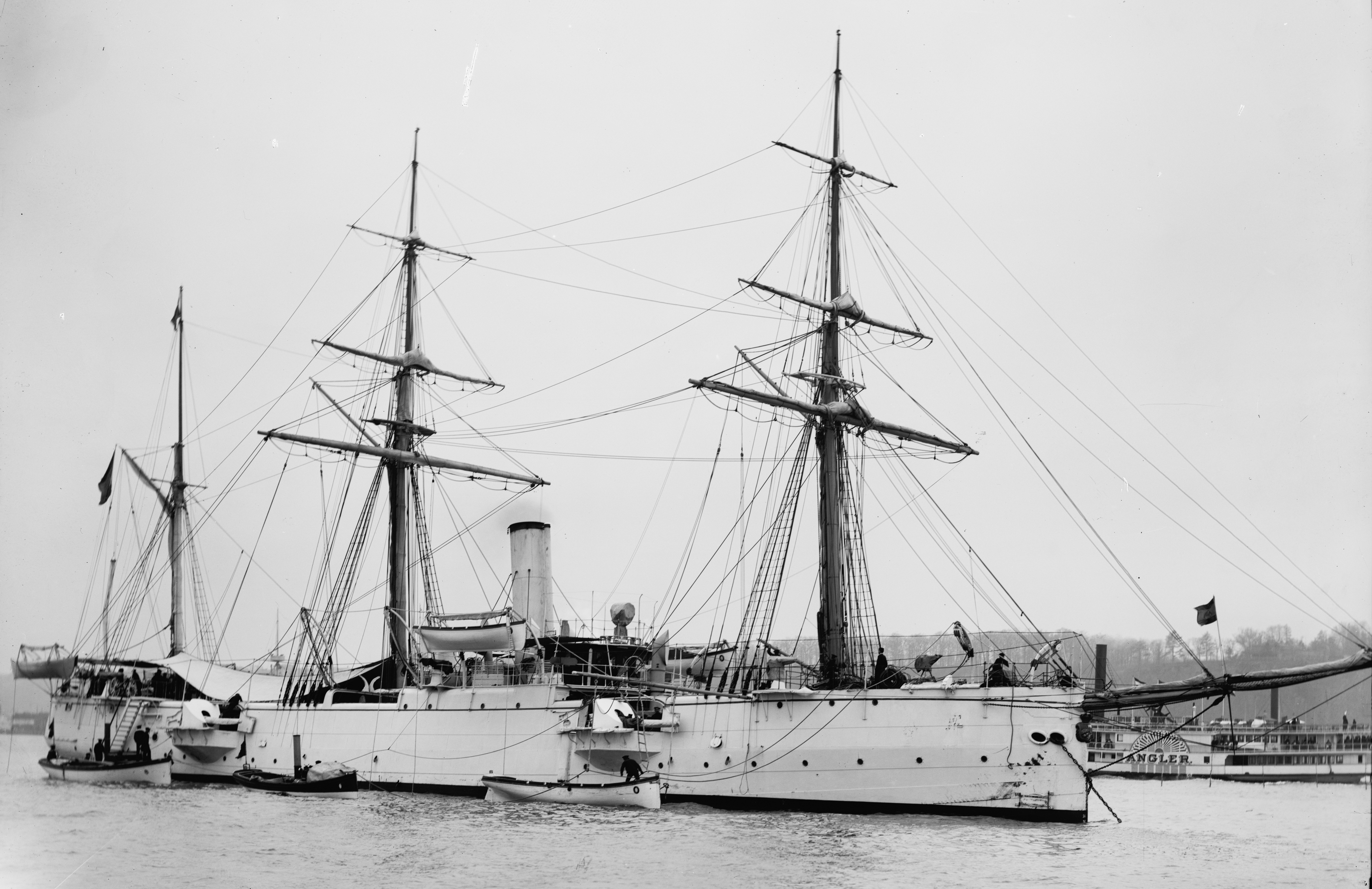 Velasco class cruiser Infanta Isabel in New York Bay, 1893